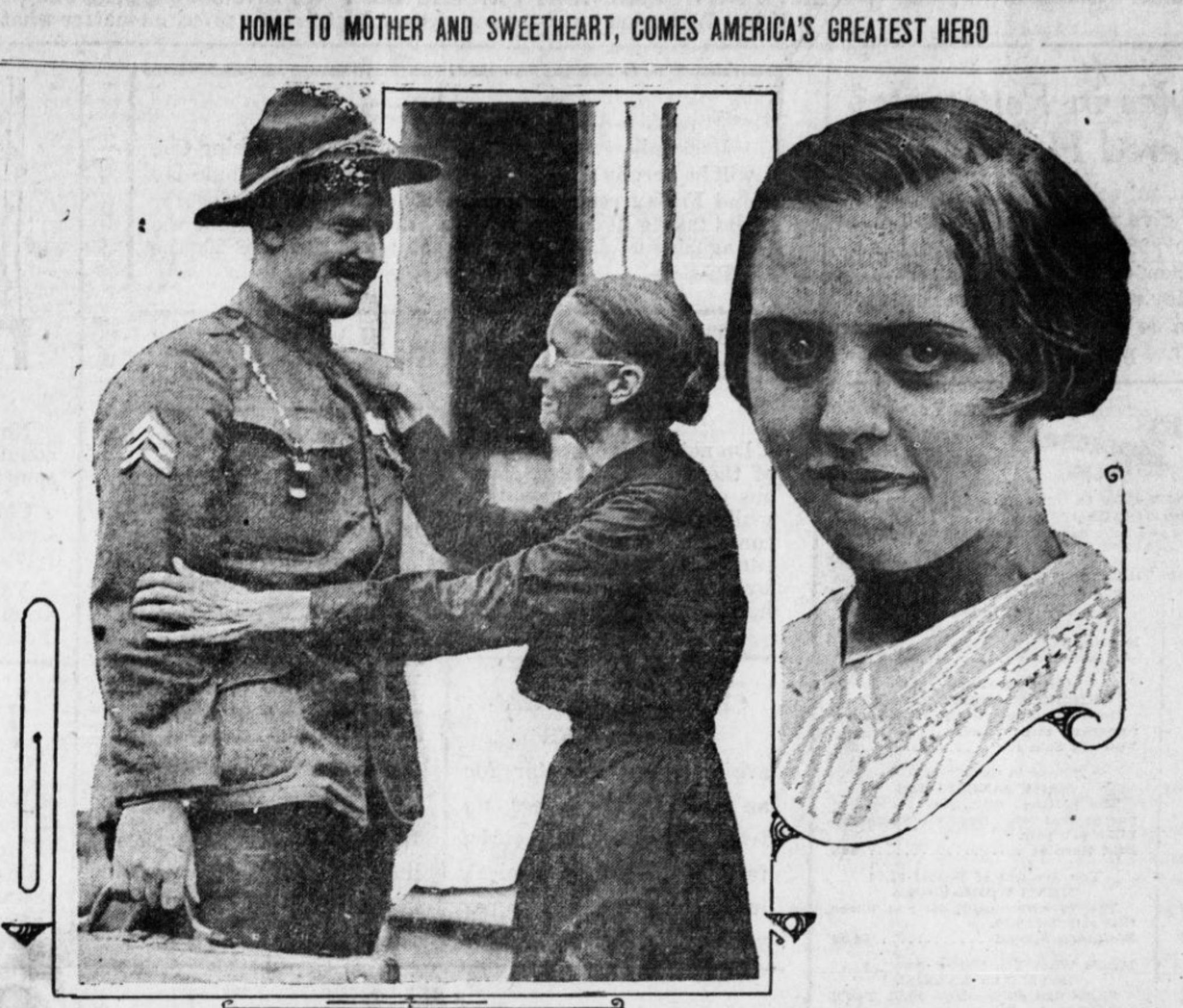 Home to mother and sweet hart, comes America's greatest hero